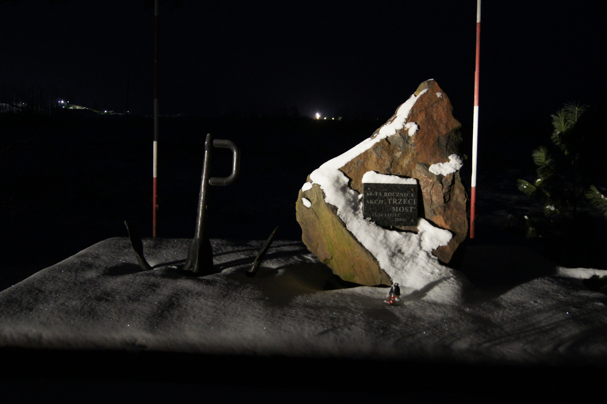 Memorial stone for Operation Most III in Zabawa, Poland